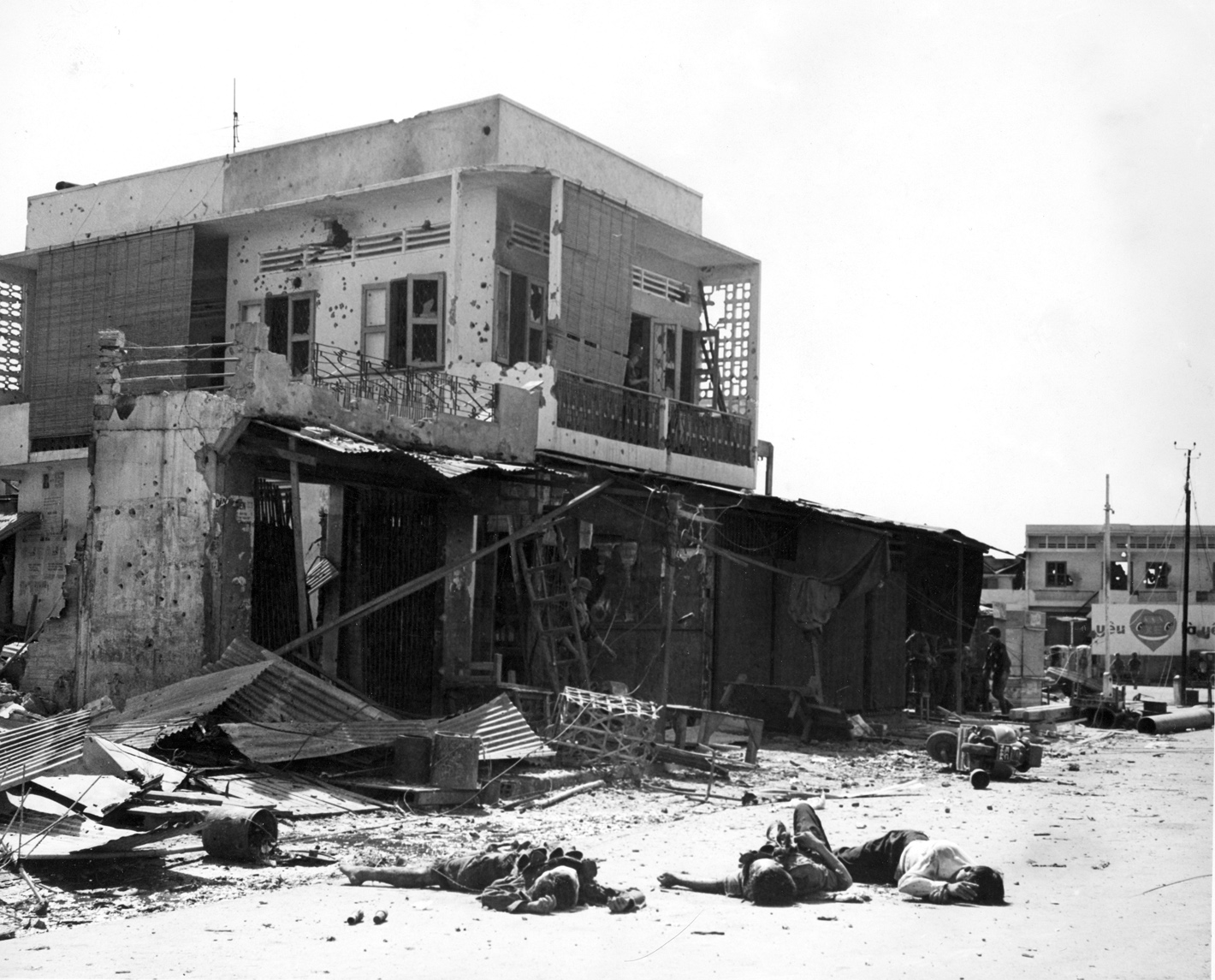 AVSG-S-C-3073-1/AGA68 RVN Tan Son Nhut The bodies of three NVA lay in the street just off Plantation Road in an area which was devastated by air strikes and fires during a battle in and around the Old French Cemetery.